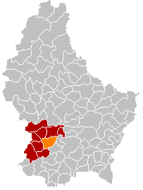 Own edit of Kanton CapellenLocatie.png